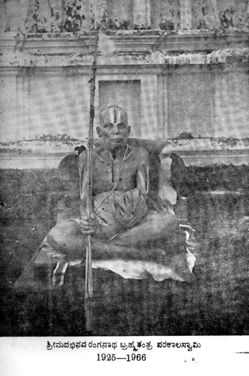 His Holiness Sri Sri Sri Abhinava Ranganatha Brahmatantra Swatantra Parakala Swami, 33rd Pontiff of Sri Parakala Mutt